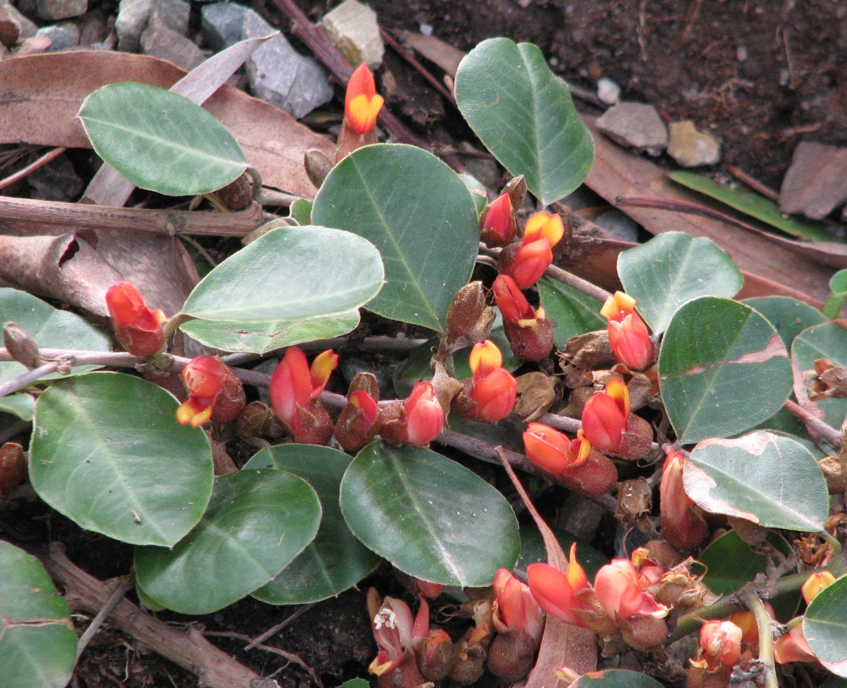 Gastrolobium minus (cultivated, labelled as Brachysema minor) Maranoa Gardens, Balwyn, Victoria, Australia